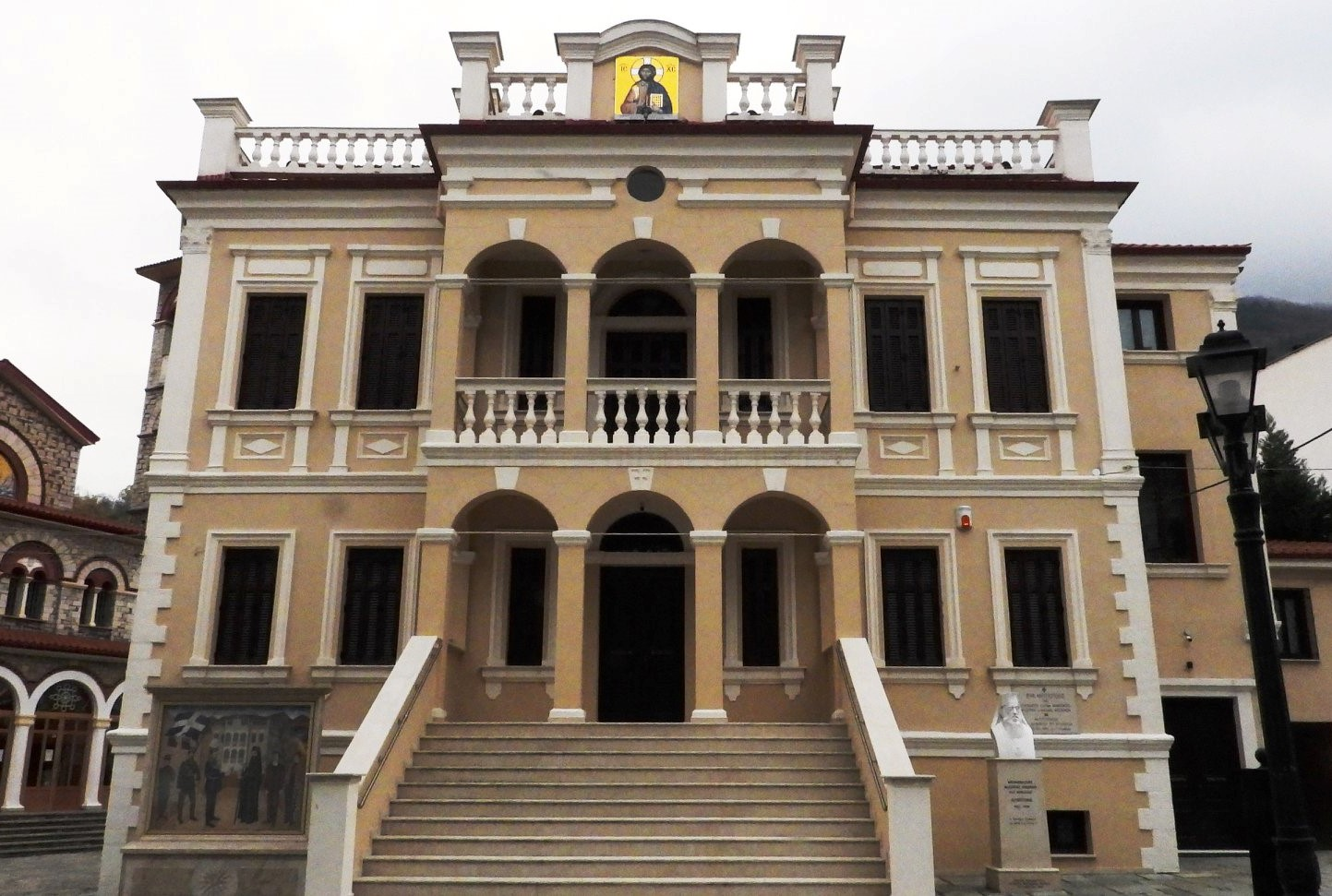 Metropolis Building of the Florina Diocese